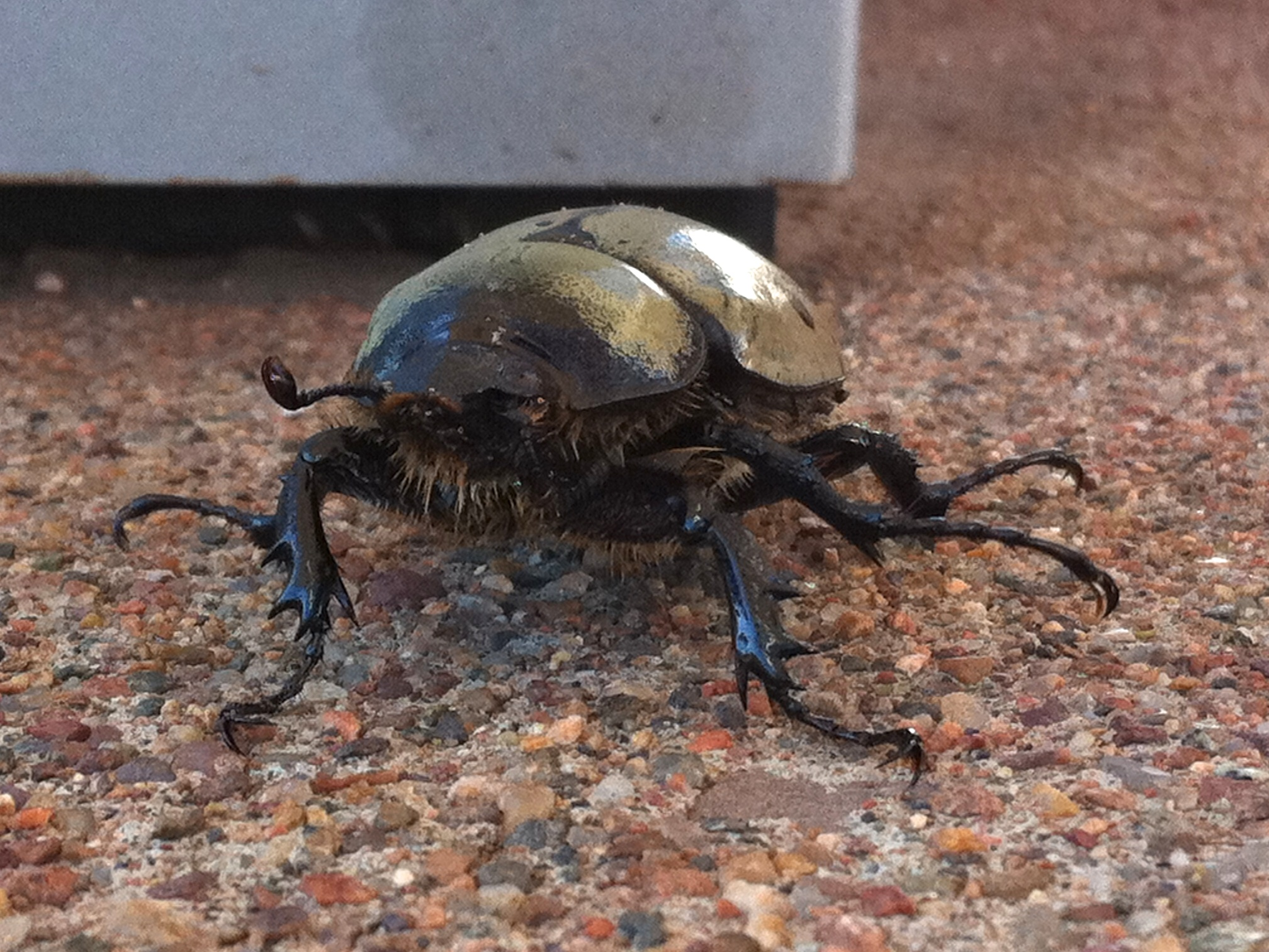 This mega beetle was standing right at the gas pump at Uncle Tom's Texaco station in Pine. I did not want to start any arguments. I'm sure loving the detail (and zoom and subject focus) of the iPhone 4 camera. This giant beetle was hanging out at the gas pump, and I want to see it at eye level. As strange as it looks to us, I bet we are equally odd to behold. I'd have some respect for these guys- they've been raoming the earth way longer than us hairless apes.